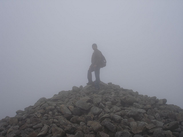 On top of Slieve Donard